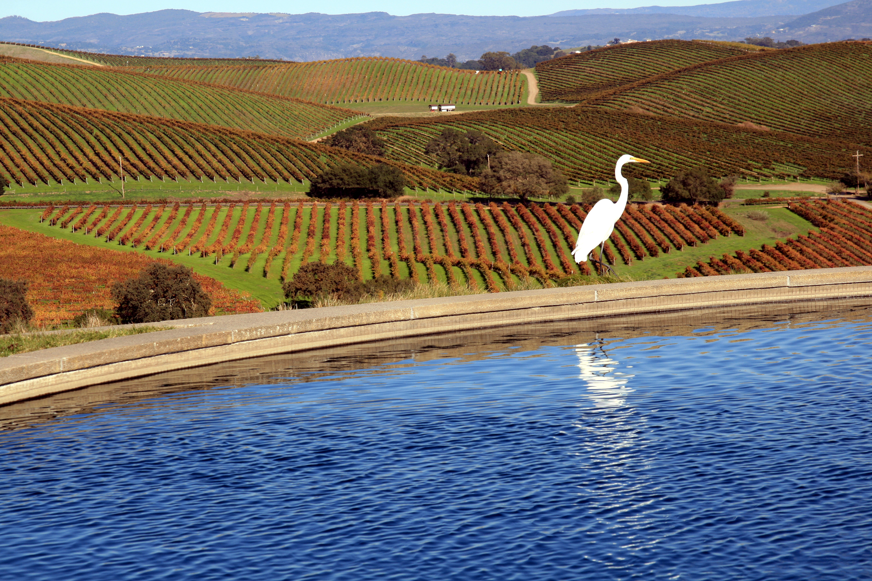 Vineyards in Napa Valley